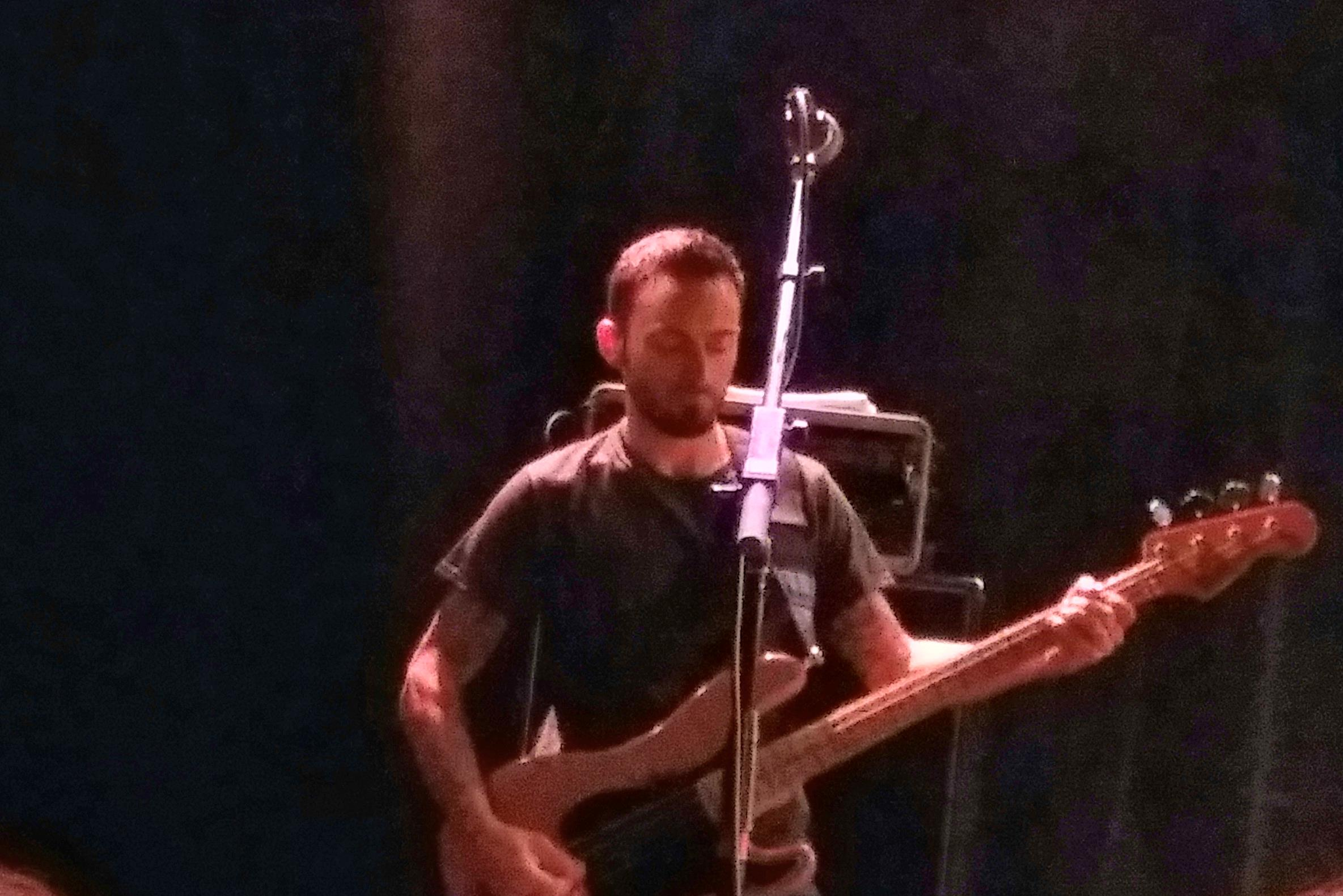 Dan Monti (aka Del Ray Brewer) playing bass at a buckethead show in Englewood, Colorado on September 23, 2017.